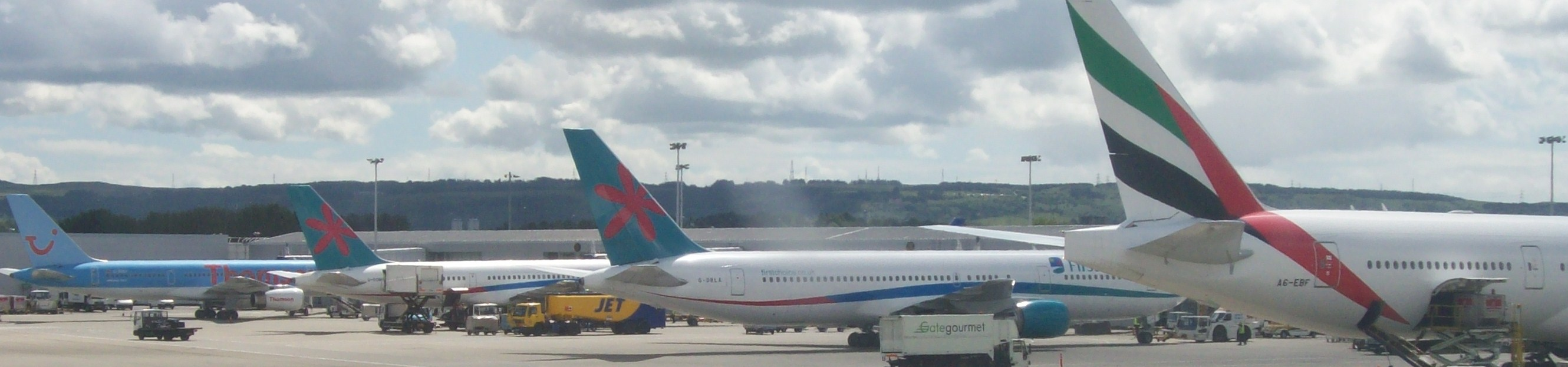 At Glasgow Airport